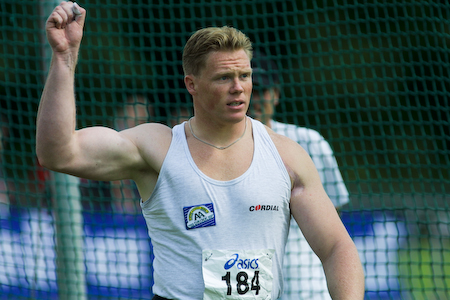 Rutger Smith during the 2002 Gouden Spike Meeting in Leiden, The Netherlands